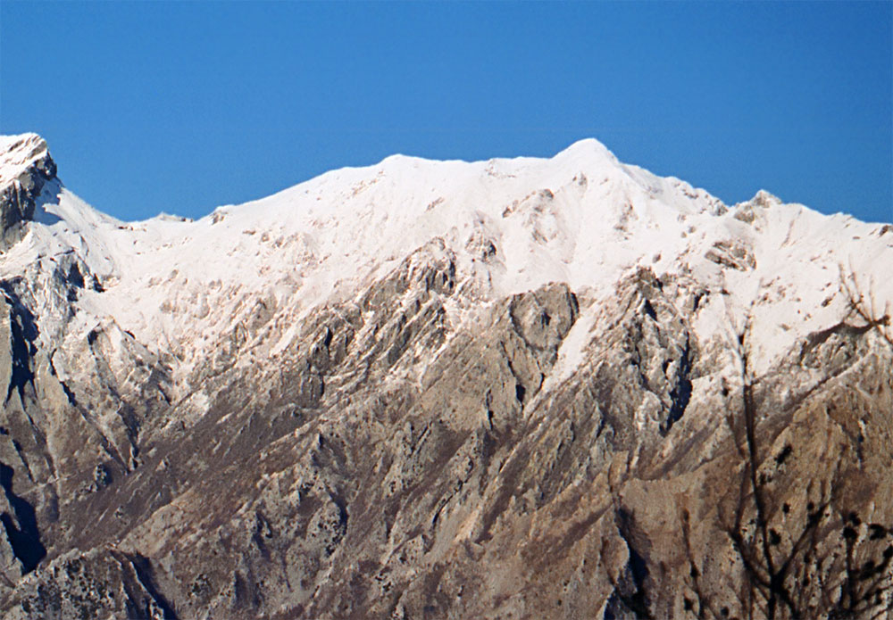 Mount Tambura, Tuscany, Italy